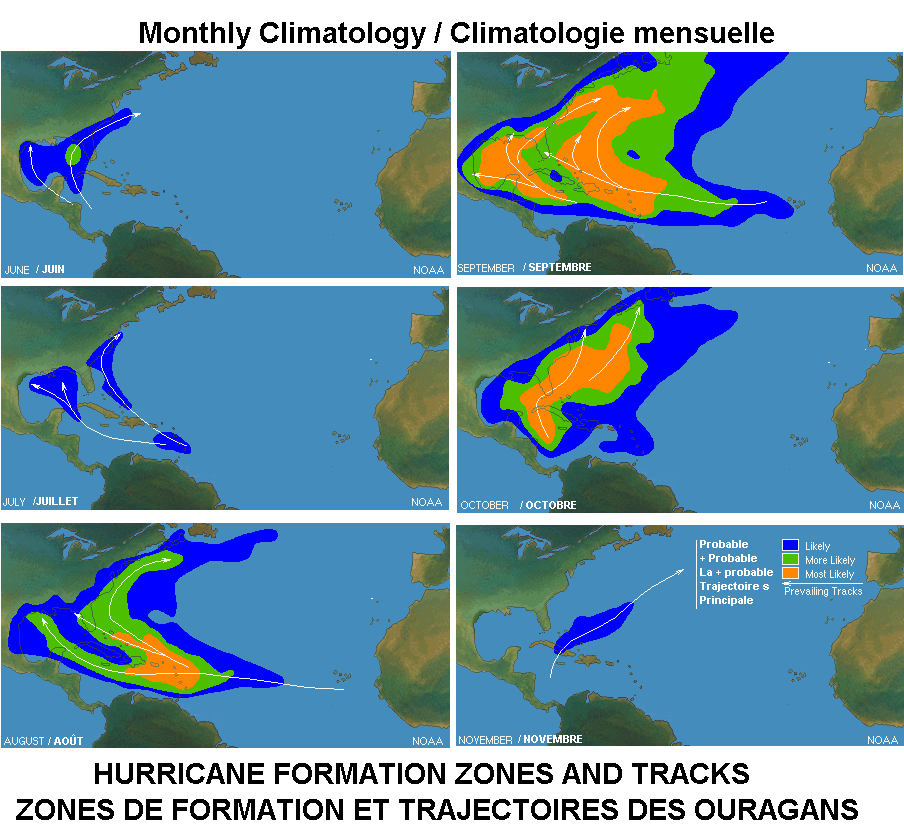 The figure shows the zones of origin and tracks for different months during the Atlantic hurricane season. These figures only depict average climatological conditions.